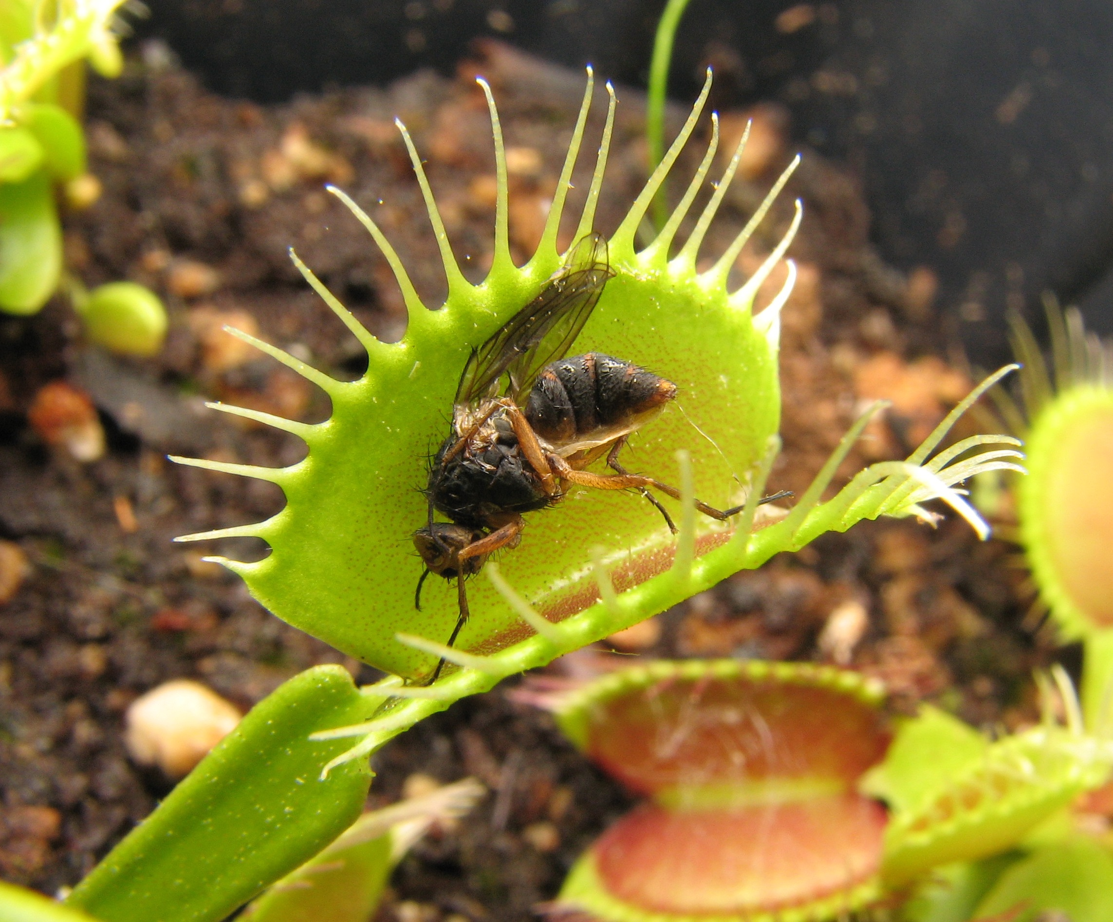 Muscoid fly trapped by Dionaea muscipula. Pennypack Restoration Trust, Montgomery County, Pennsylvania, USA.